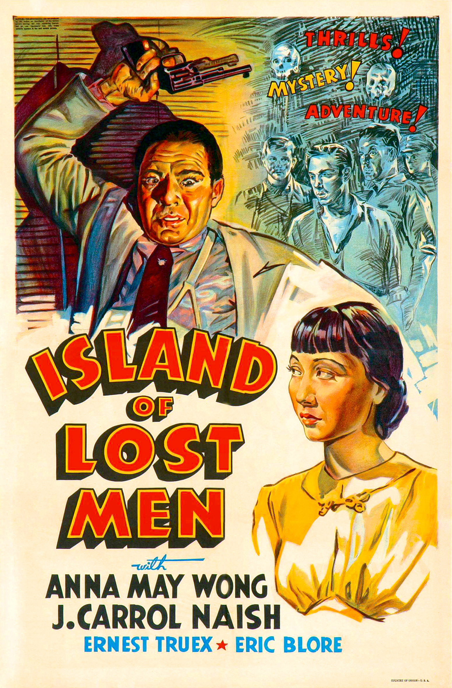 American film poster for the 1939 film Island of Lost Men, starring Anna May Wong, Anthony Quinn, and J. Carroll Naish